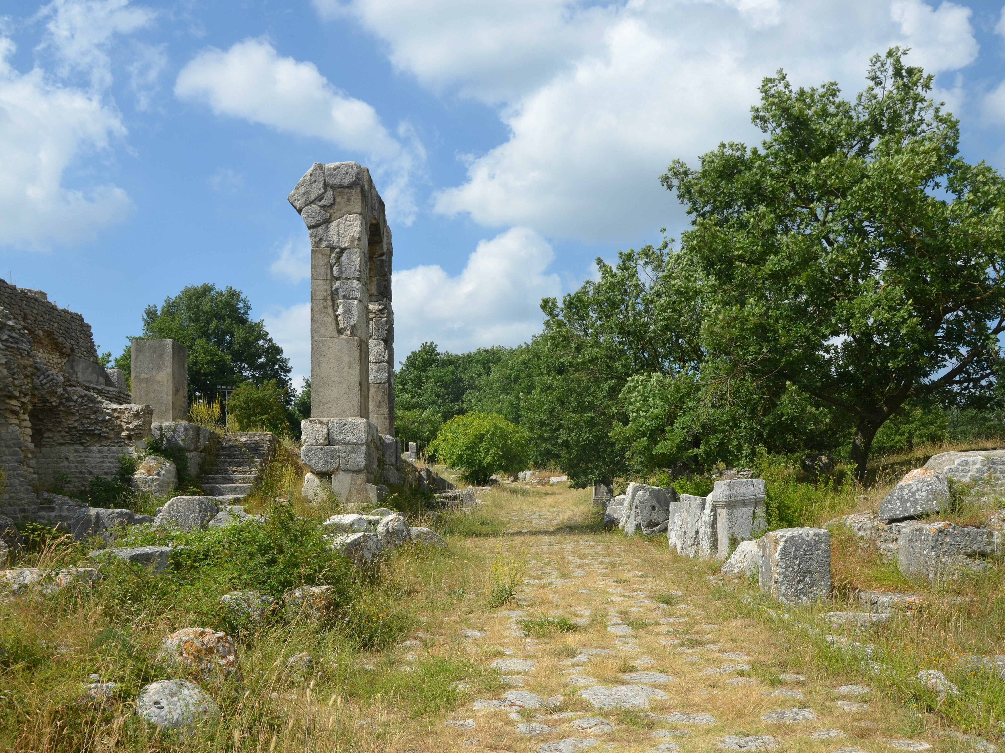 The cardo maximus, the main or central north–south-oriented street crossing the municipium. The arch on the left, which was recently reconstructed, marked the entrance to the forum, Carsulae, Italy